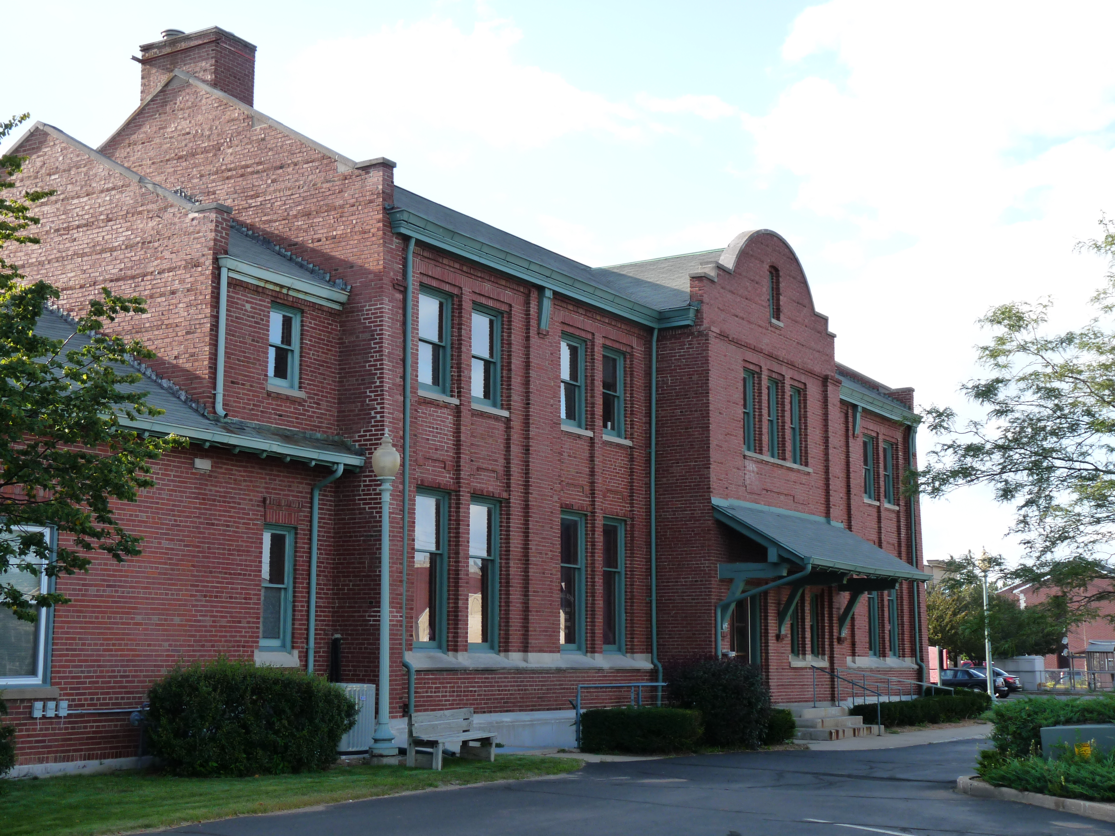 Old depot in Antigo, Wisconsin, converted to apartments.